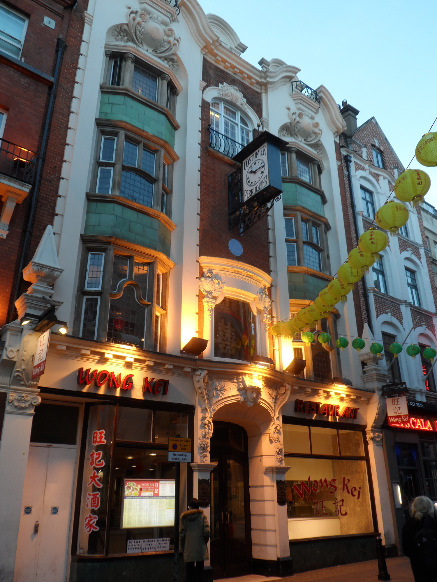 WILLY CLARKSON 1861-1934 THEATRICAL WIGMAKER lived and died here